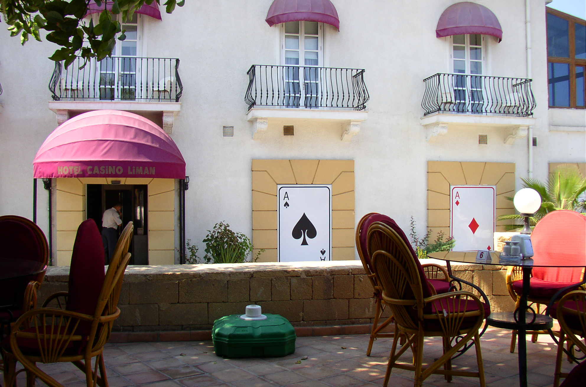 the Casino in Girne (North Cyprus) near Old harbour (2003)